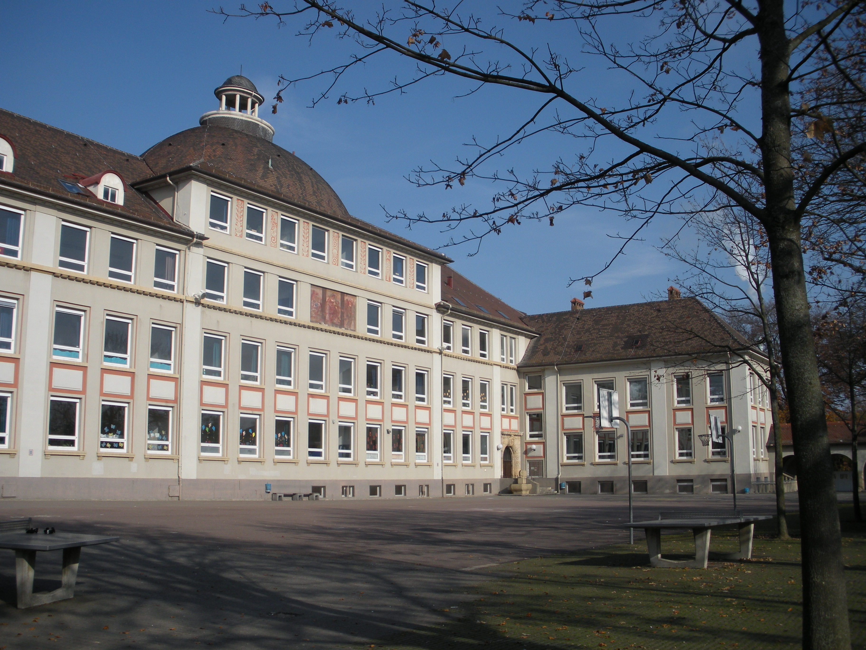 Altenburg-School in Stuttgart-Bad Cannstatt